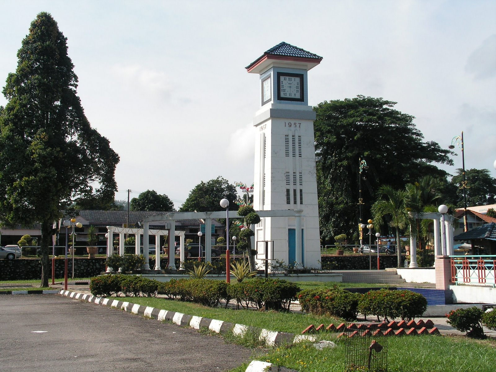 Part of Kulim TOwn